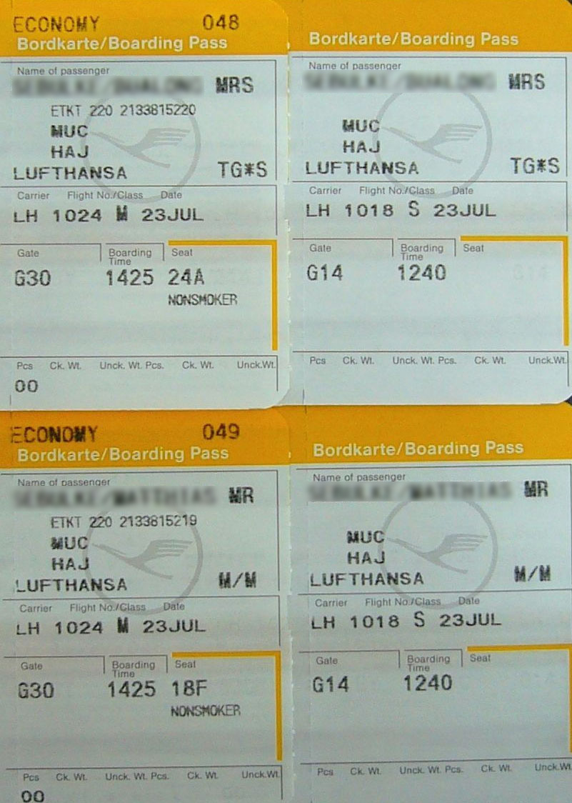 Lufthansa Boarding cards.